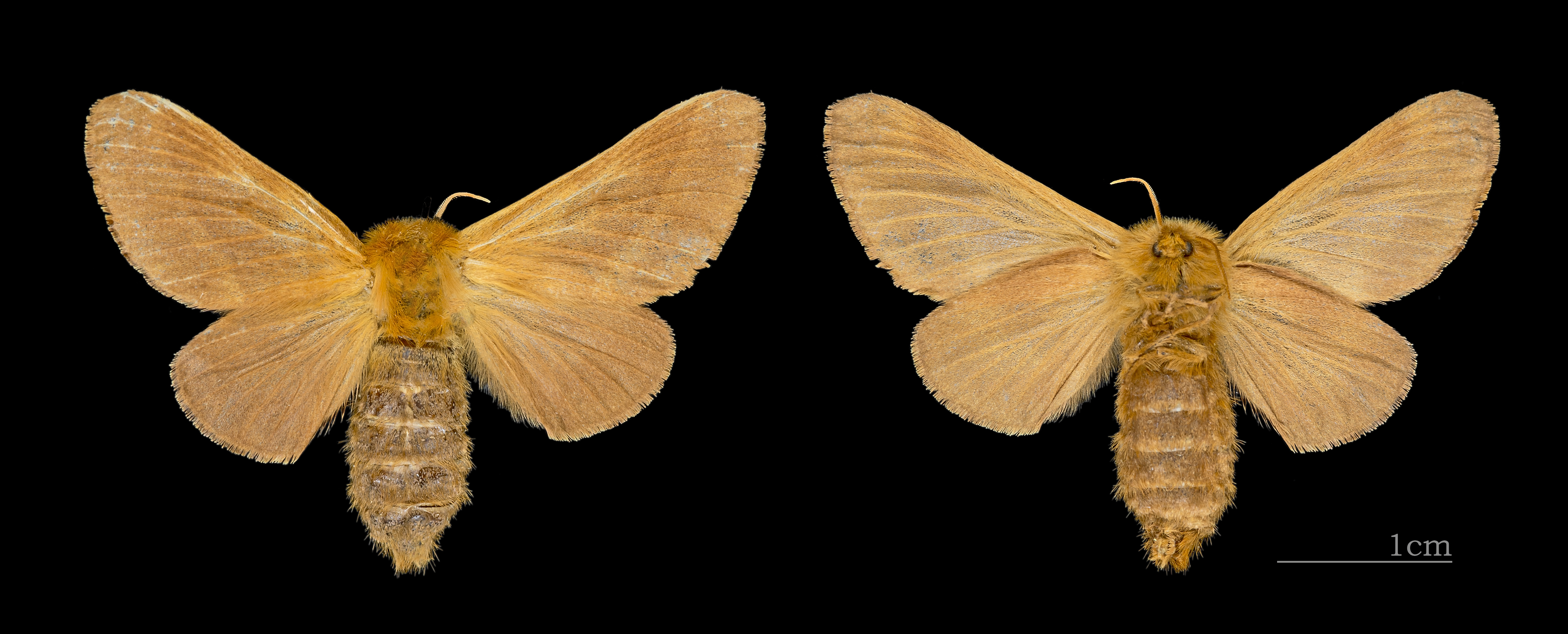 Malacosoma franconicum - Two views of same specimen